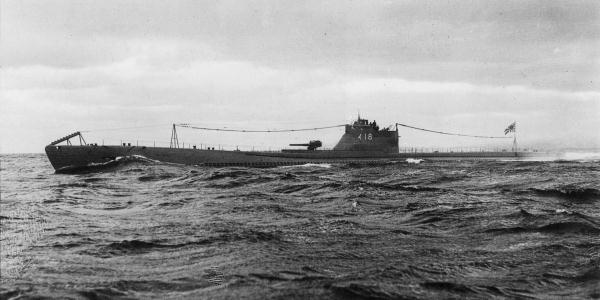 Japanese submarine I-16 (C-class), on trial run off Sasebo.